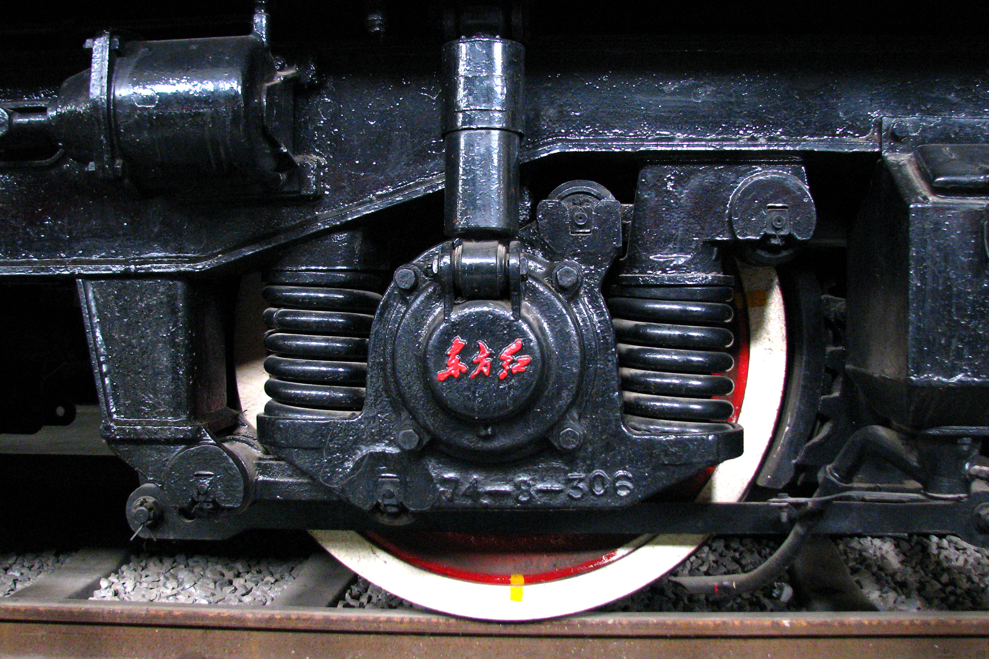 The wheel-set of China Railways DFH2 0008 diesel-hydraulic locomotive displayed in China Railway Museum.